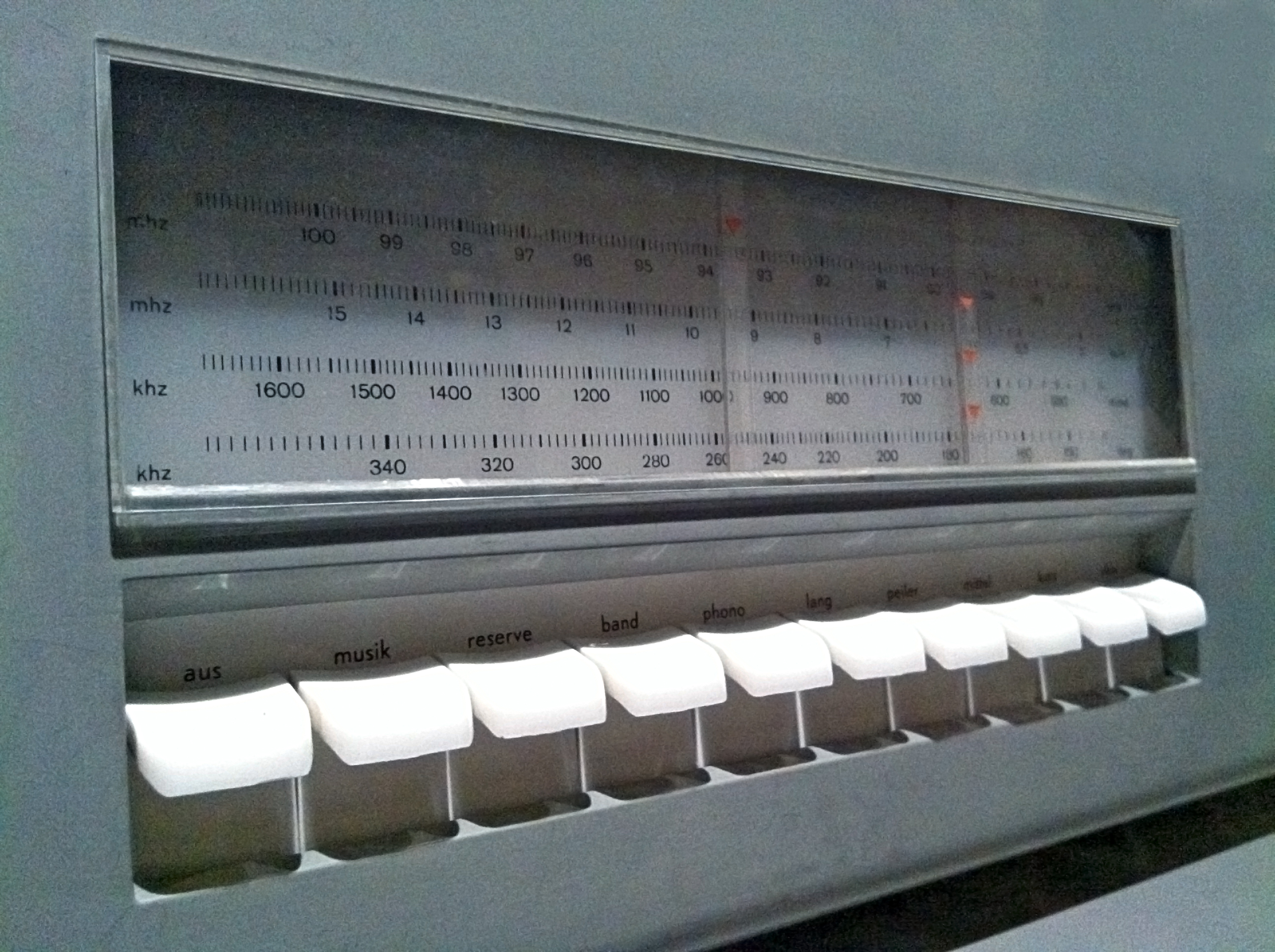 Systems design- The Ulm school. Exhibit at Disseny Hub Barcelona- DHUB Braun Studio1